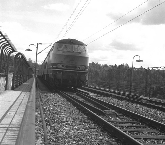 Diesel hauled train on the Grosshesselohebrucke